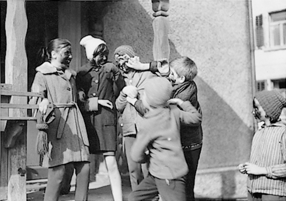 Braeuche Ruassla Liechtenstein